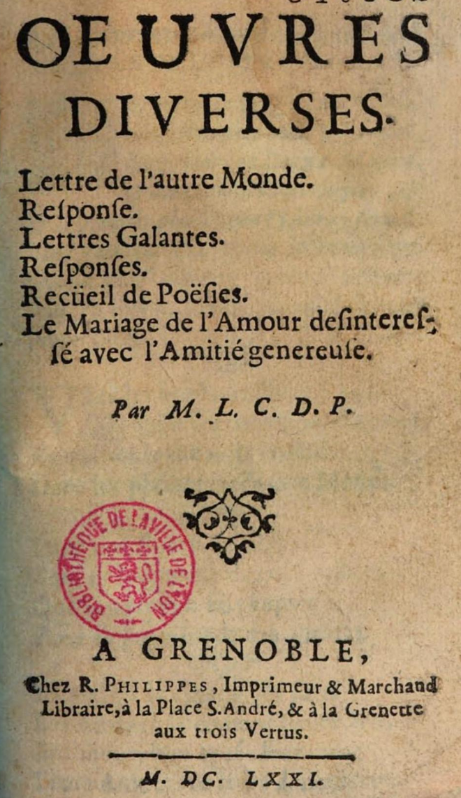 MLCDP is a pseudonym of René Le Pays